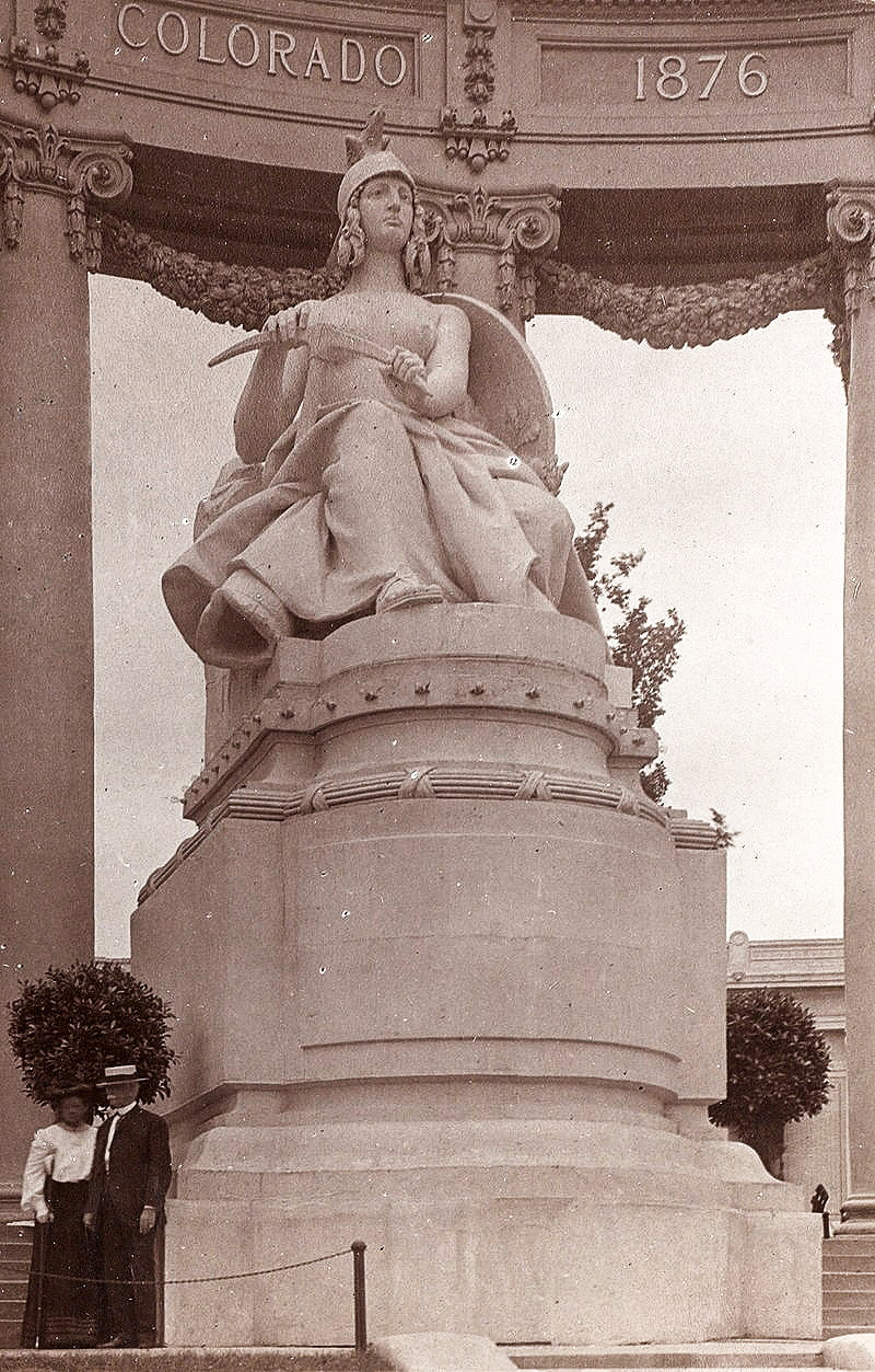 Allegorical Figure of Colorado by August Zeller, Colonnade of the States, 1904 Louisiana Purchase Exposition, St. Louis, Missouri.